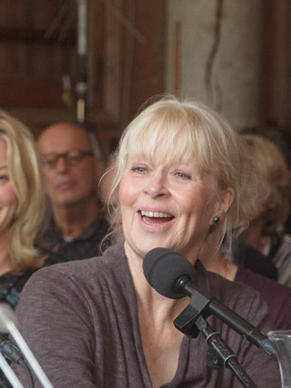 Annegreet van Bergen tijdens de uitreiking van de Libris Geschiedenis Prijs (Maand van de Geschiedenis)